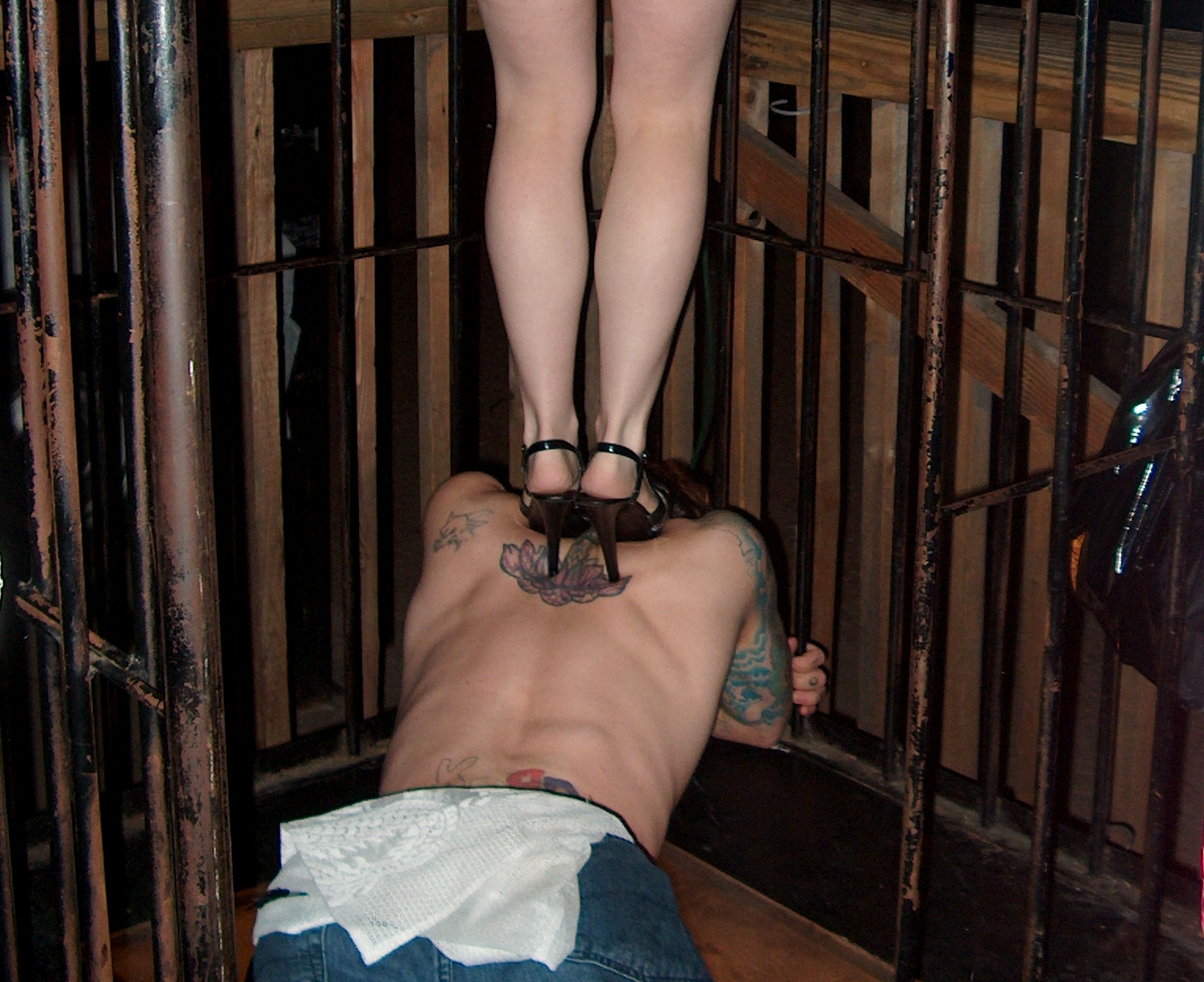 Stampede, stepping, footprint